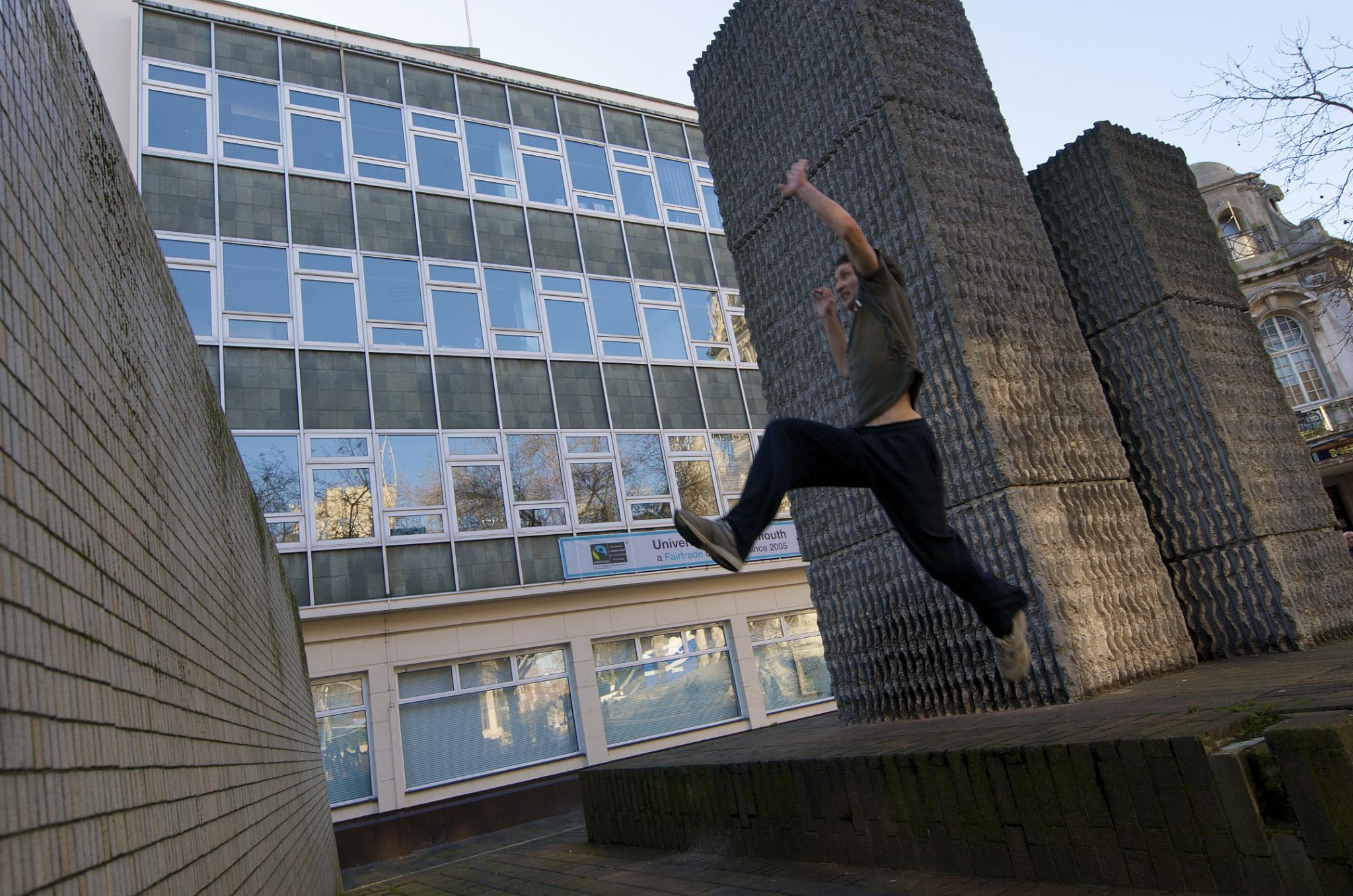 Parkour Foundation Winter